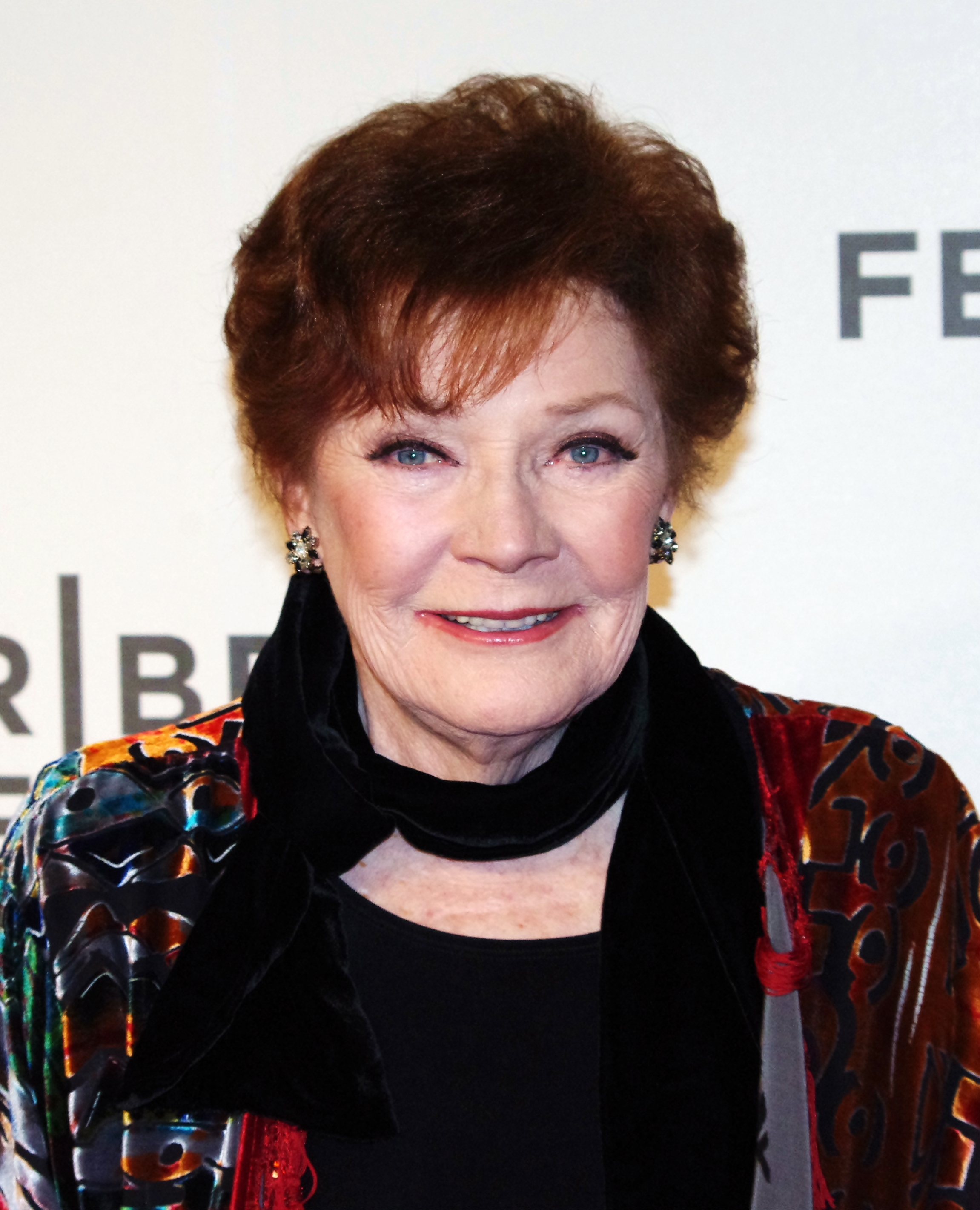 Polly Bergen at the 2012 Tribeca Film Festival premiere of Struck by Lightning